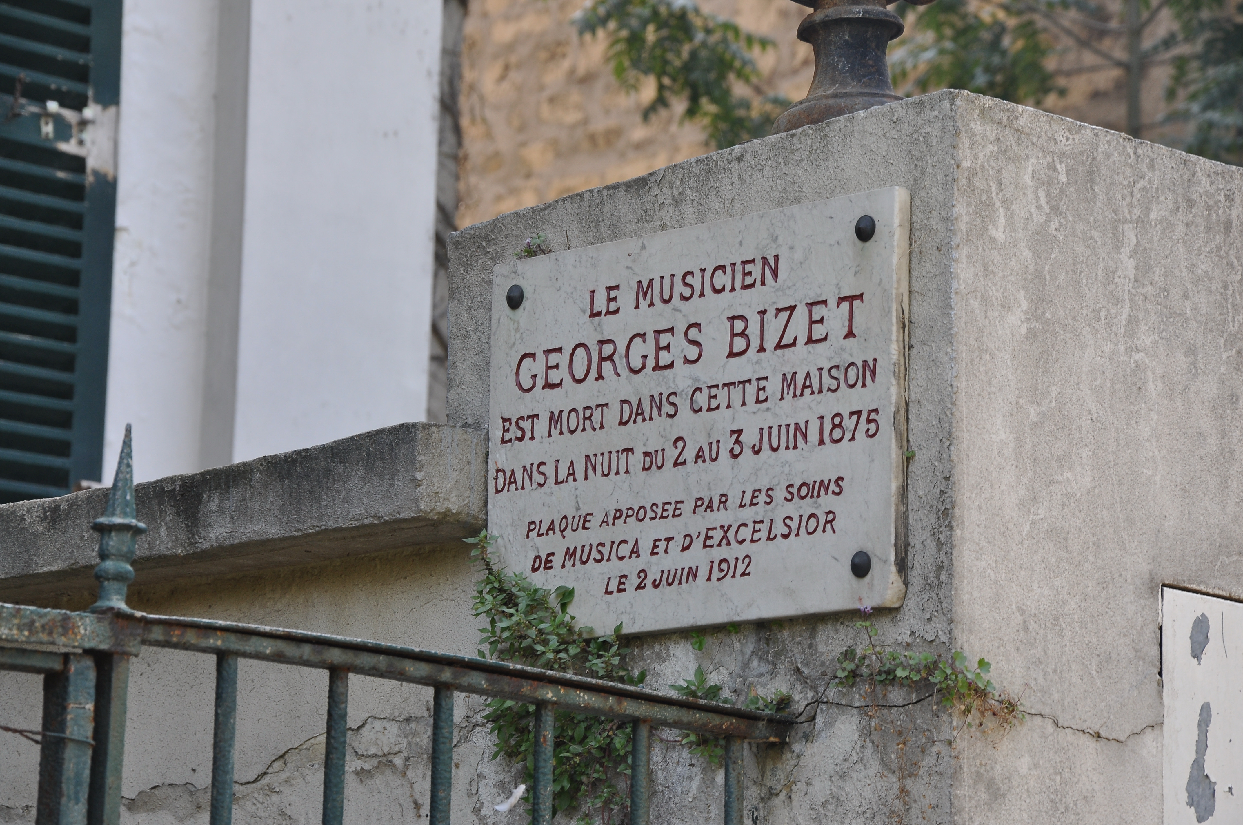 Commemorative tablet on the house of Georges Bizet in Bougival, departement of Yvelines, France.